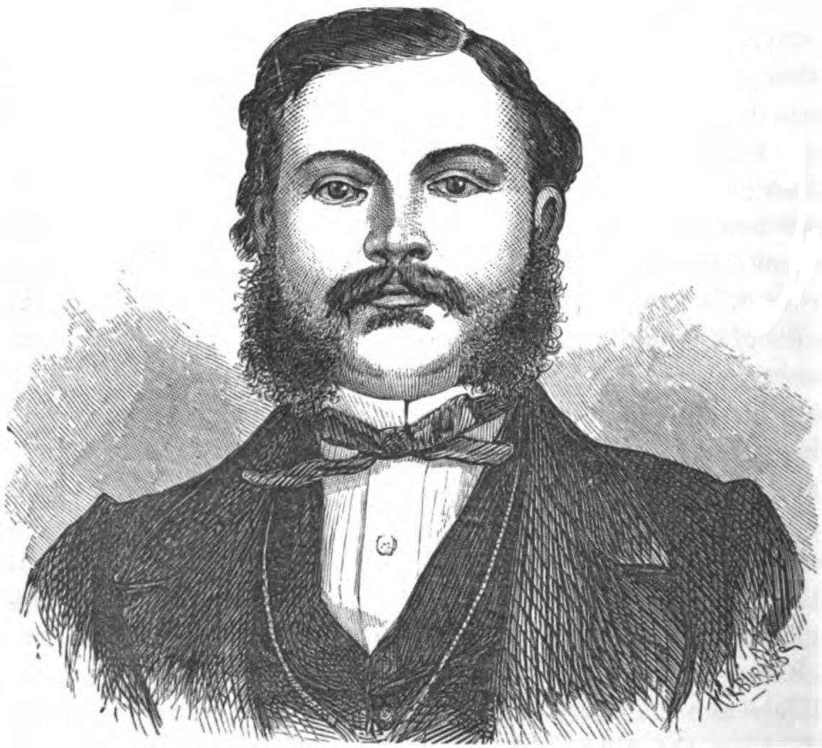 Benigno López, executed by his brother, Dec. 27, 1868.